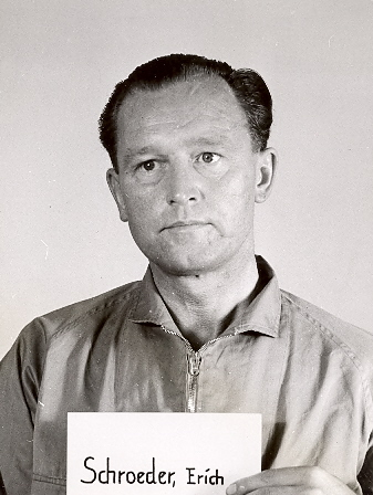 Erich Schröder as a witness during the Nuremberg Trials